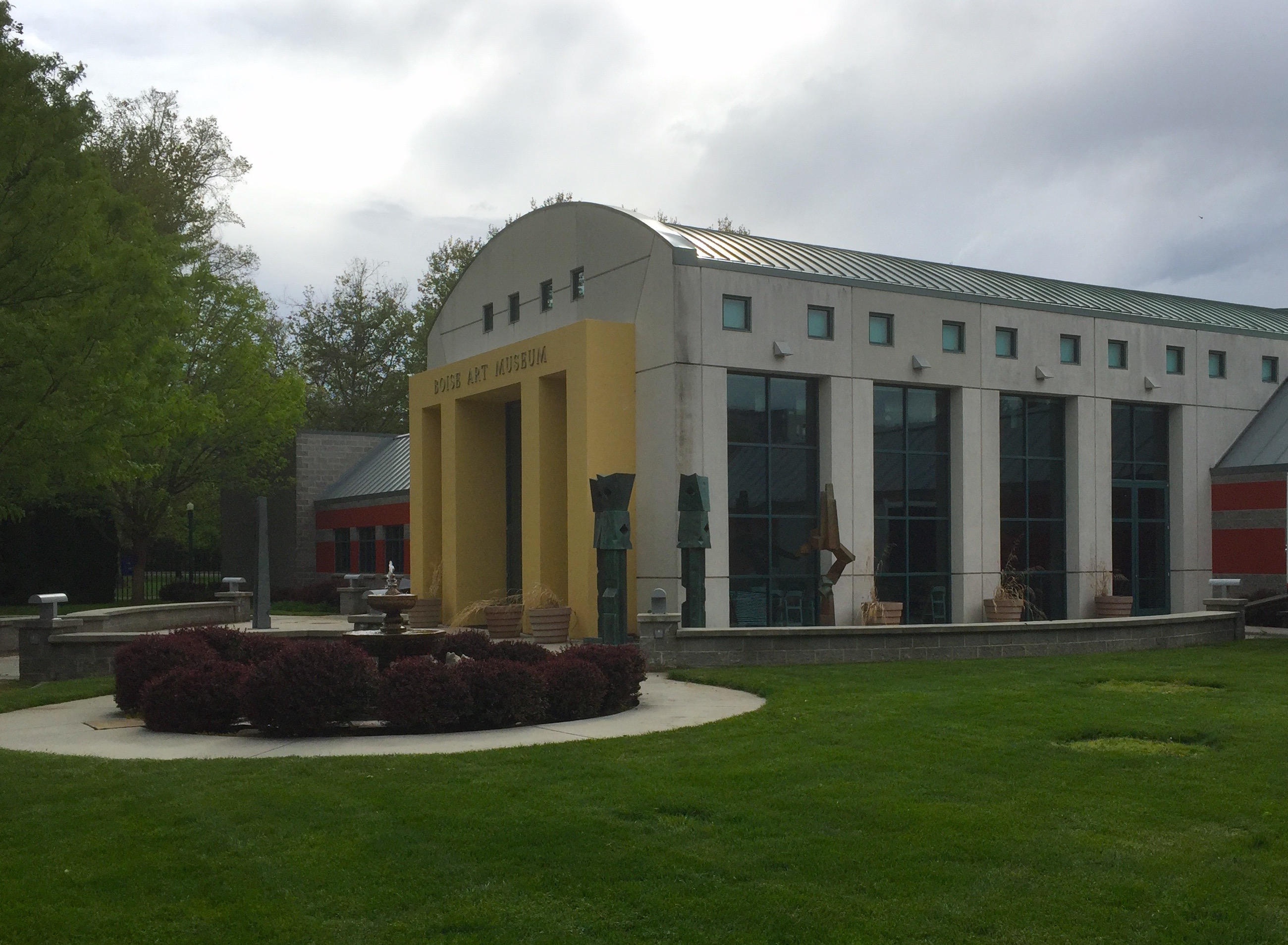 View of the Boise art Museum sculpture garden and exterior of the sculpture court in April of 2016